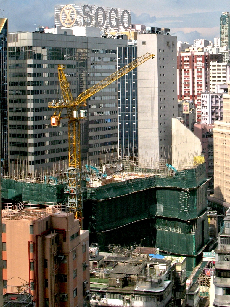 HK Hennessy Centre during demolishion